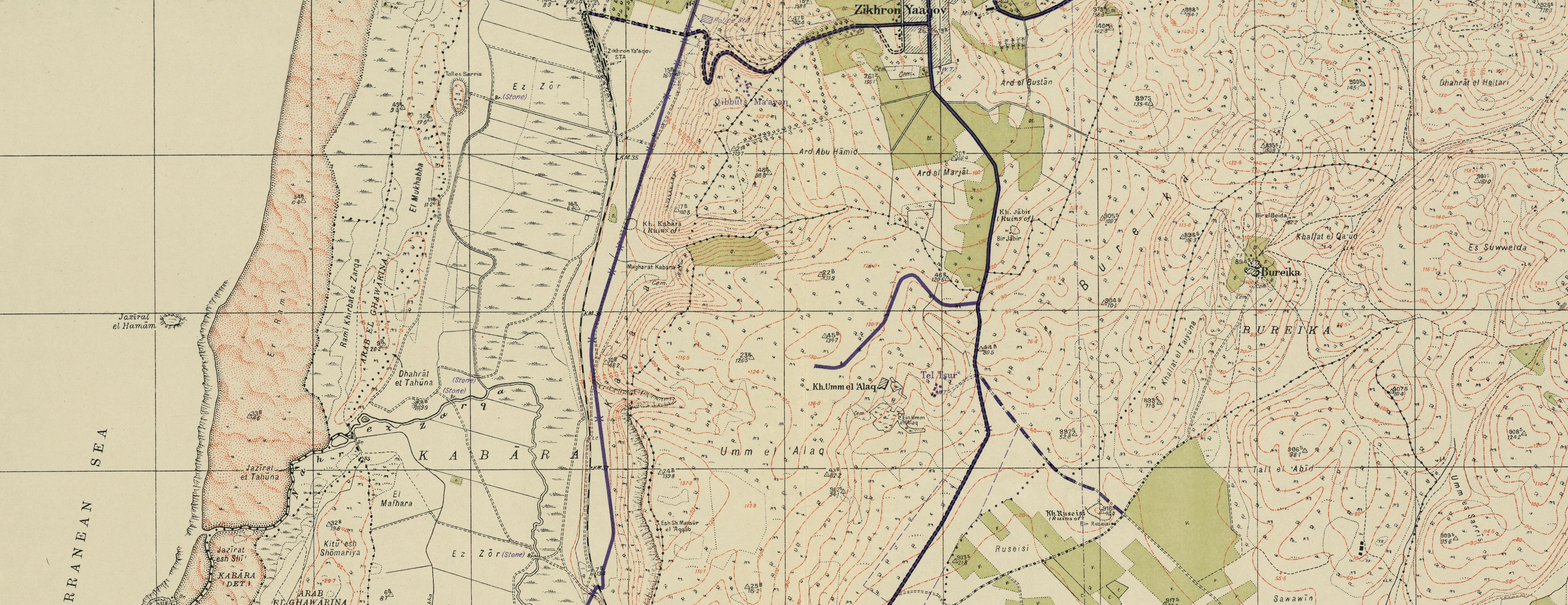 Bureka 1942 1:20,000